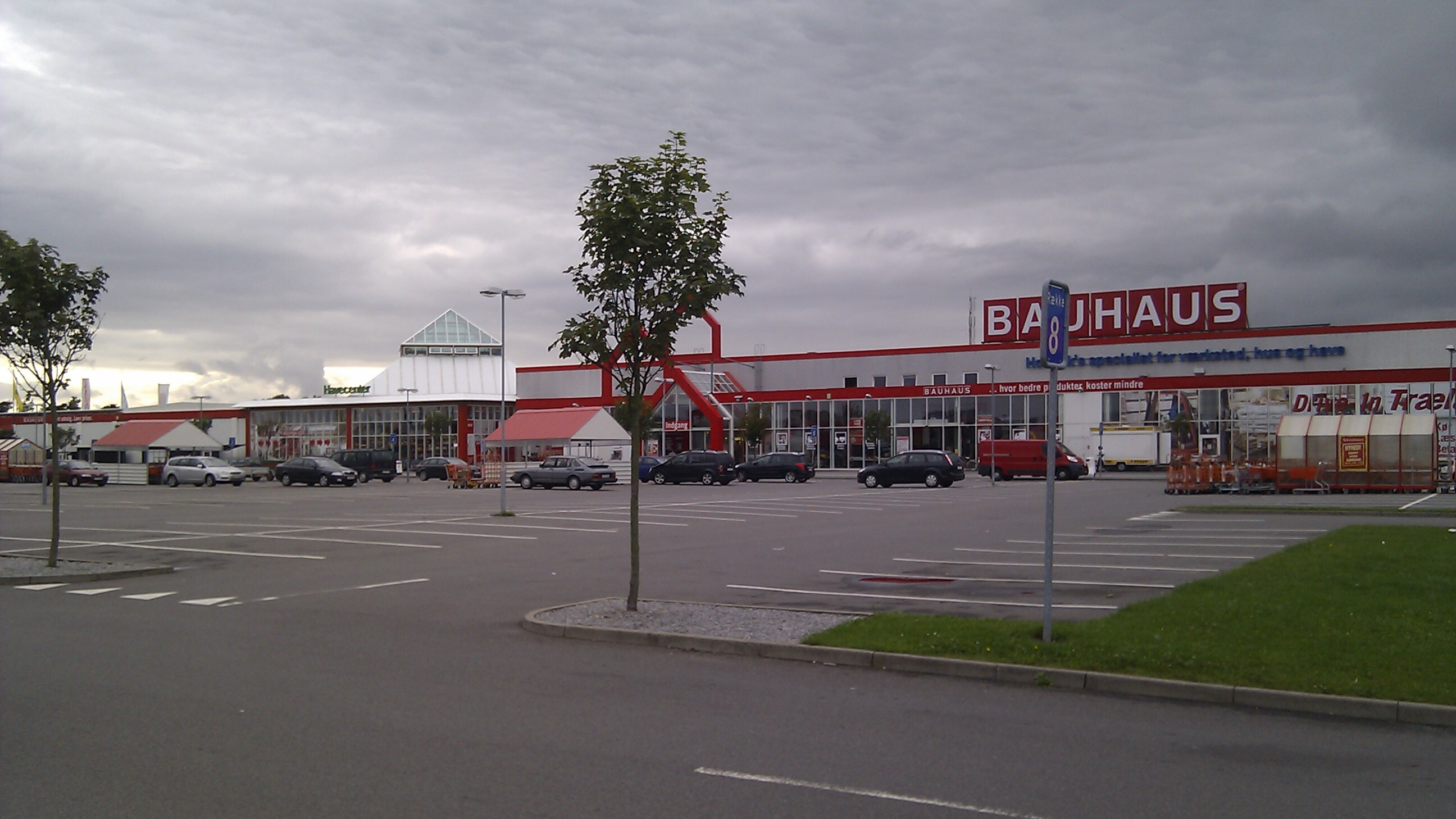 Holbæk "mega mall" in Western Zealand, Denmark